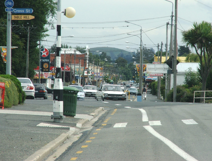 Union Street, Milton, New Zealand, showing the infamous road kink. Photographed January 2006